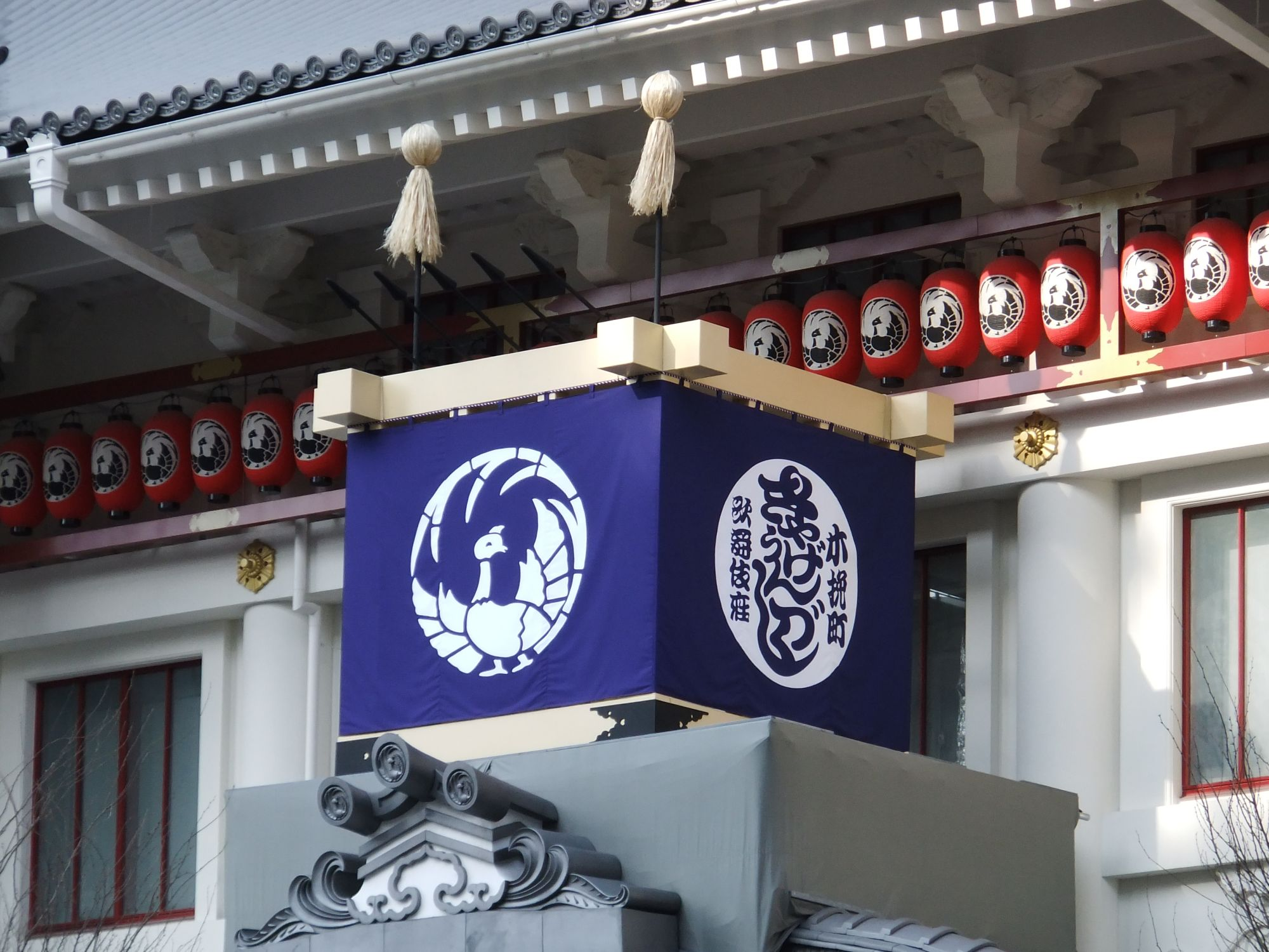 The Yagura above the entrance of Kabuki-za